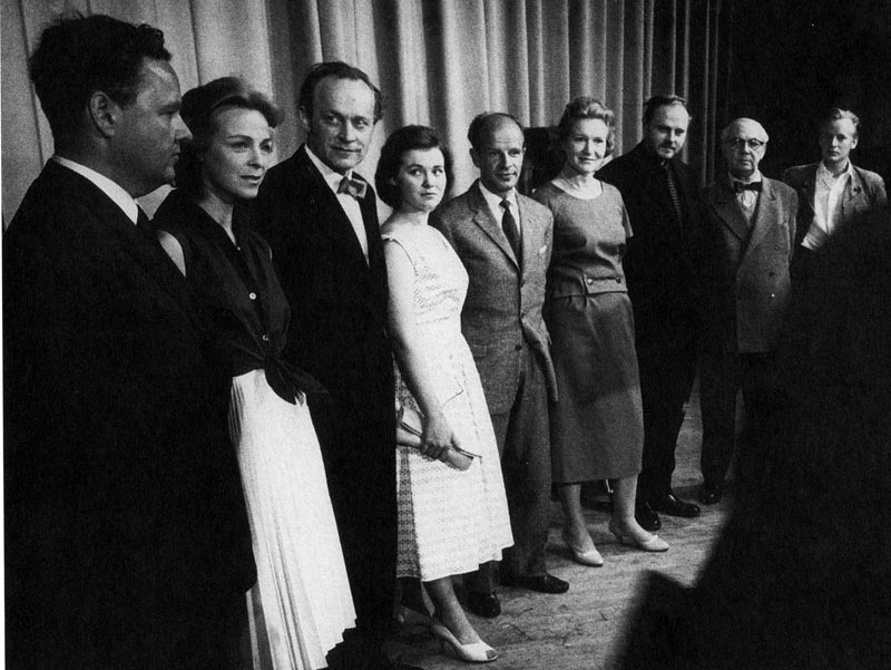 TV-teaterensemblen 1958/59.The Theater ensemble of the Swedish televison 1958/59; from left to right: Henrik Dyfverman (Theatre director), Gunnel Broström, Hans Strååt, Nadja Witzansky, Ingvar Kjellson, Aino Taube, Erik Strandmark, Erik "Bullen" Berglund and Jan Malmsjö.